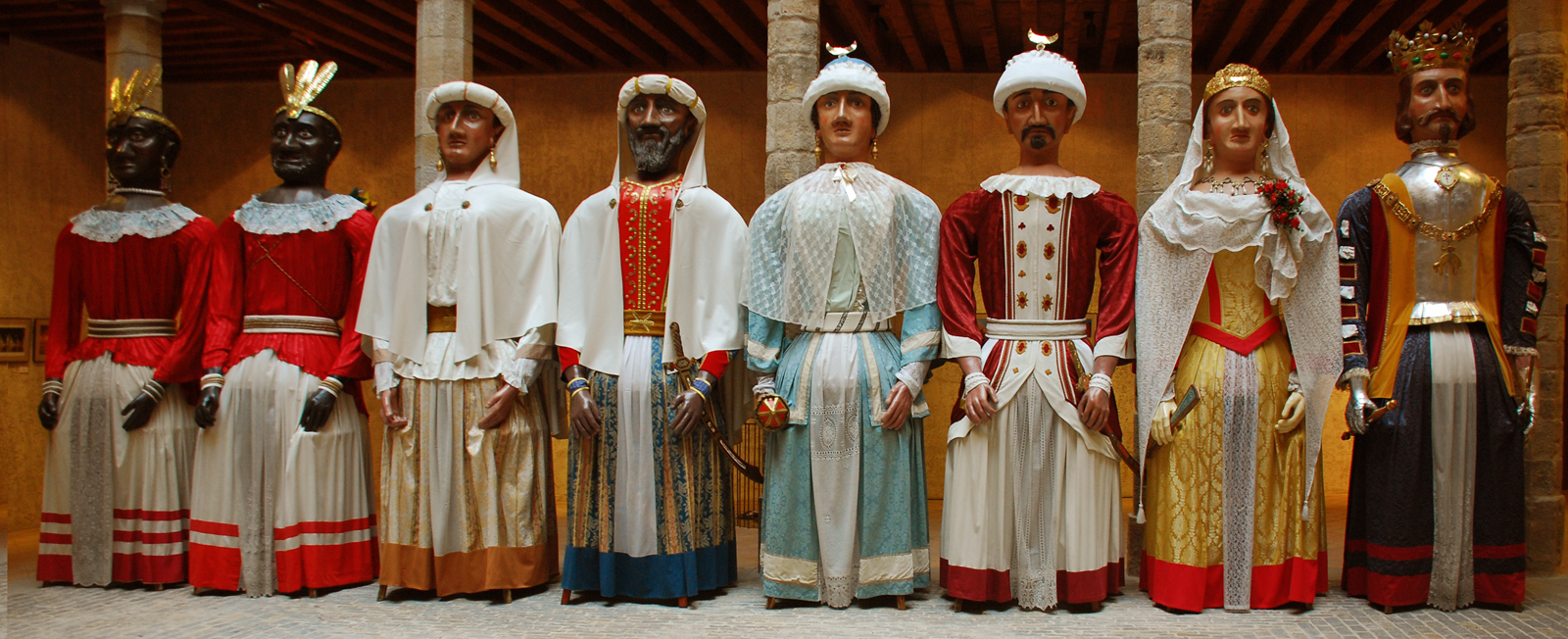 gigants